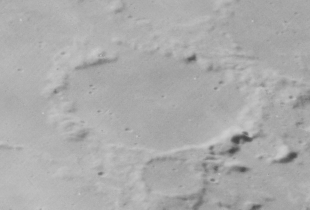 Oblique view of Kane, facing northwest, on the moon.